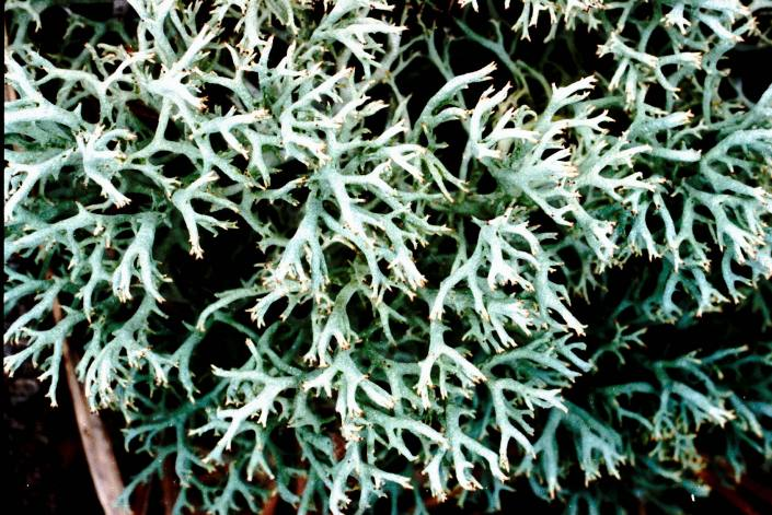 Cladonia arbuscula (Wallr.) Flotow, 1839 Photographed in the field. This colony of C. arbuscula was growing on soil south of Dolfield Road at the Soldiers Delight Natural Environment Area, Owings Mills, Baltimore County, Maryland, USA (N 39o24.110', W 76o49.374'). Determined by E.C. Uebel.